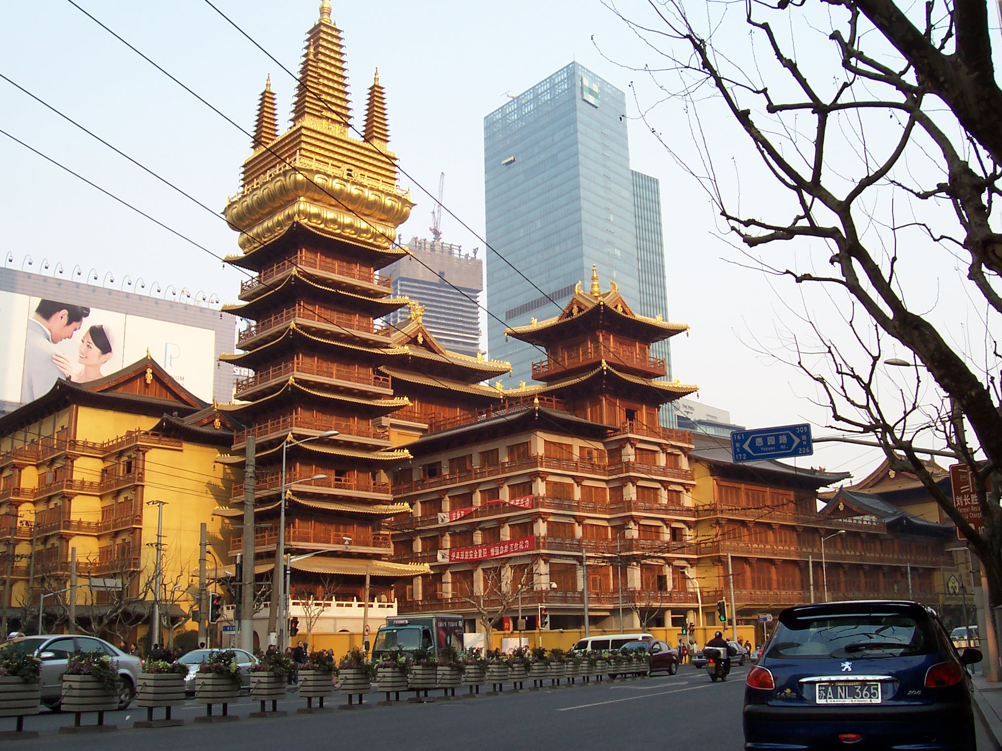 Jing'an Temple,Shanghai